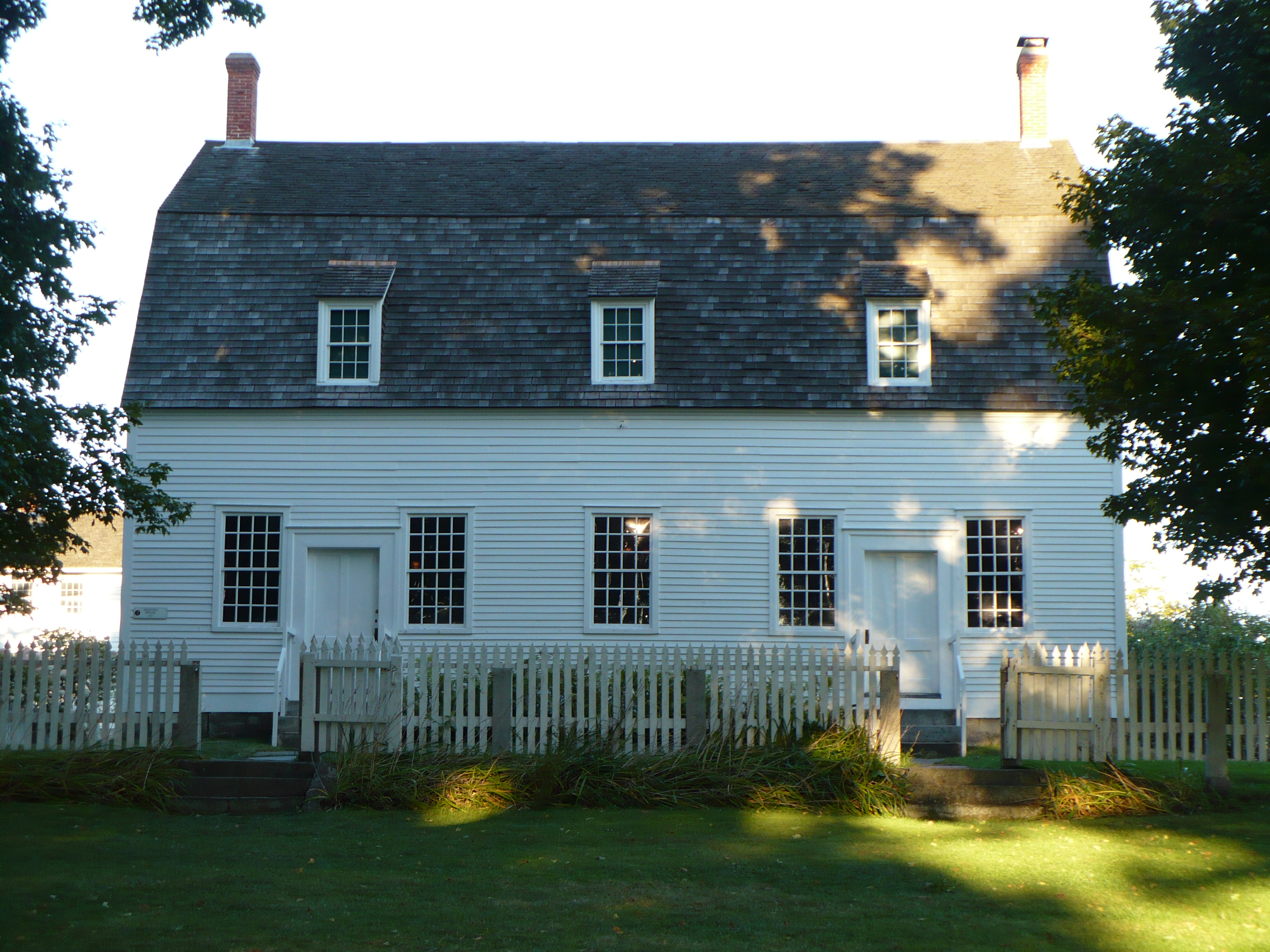 Built in 1792 by Moses Johnson.